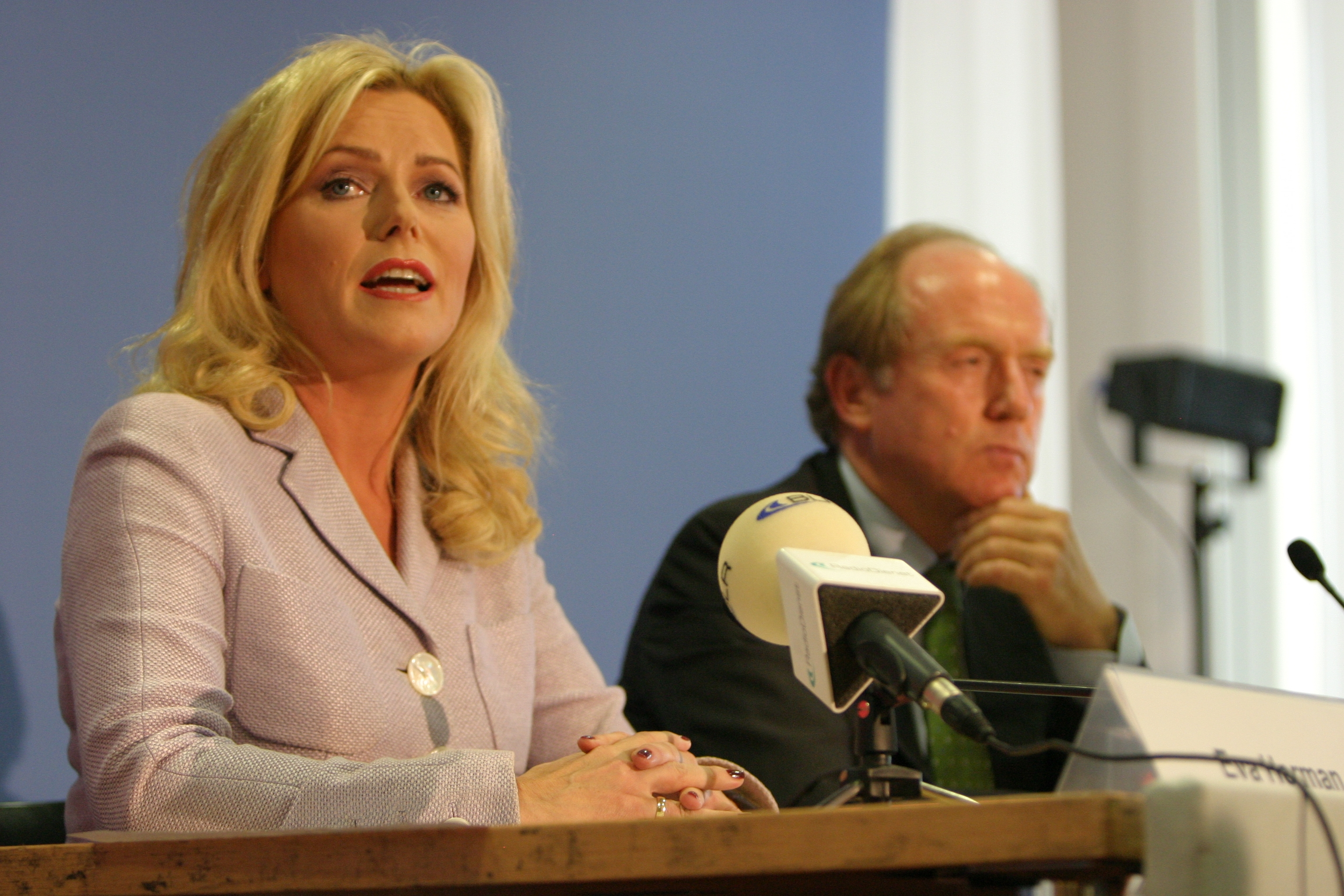 Eva Herman introducing her new book "Das Eva-Prinzip" in September 2006. On the right publisher Christian Strasser.